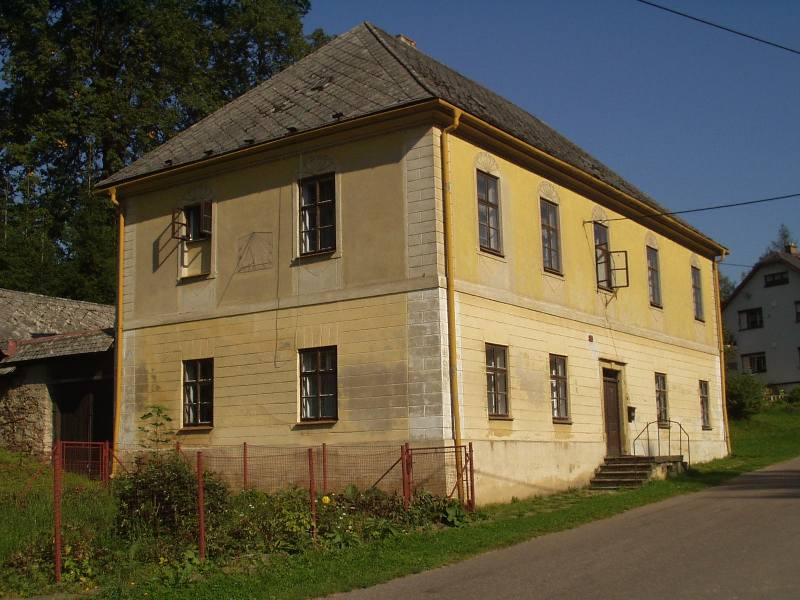 Rectory in Výprachtice, Ústí nad Orlicí District, Czech republic. Published with kind consent of the author.